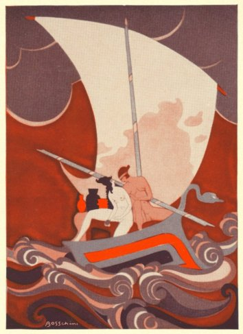 Illustration to Ovid's Art of Love